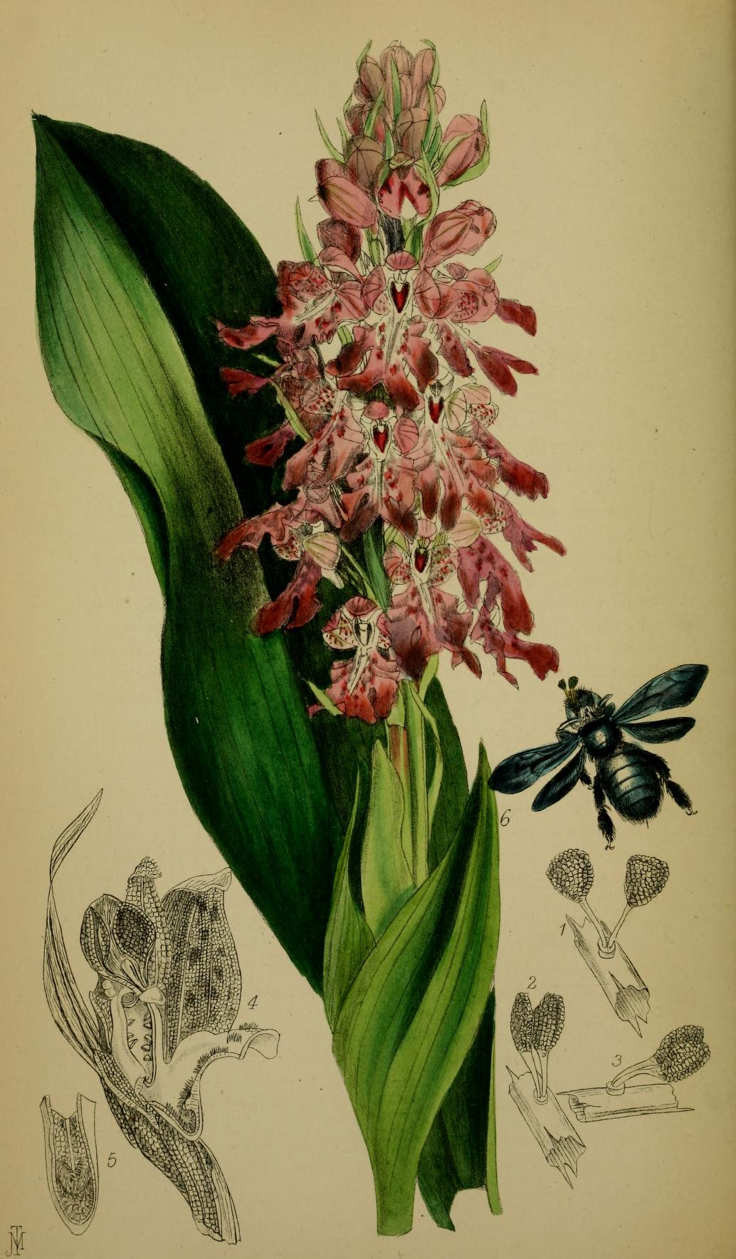 Illustration of Himantoglossum robertianum (as syn. Orchis longibracteata)